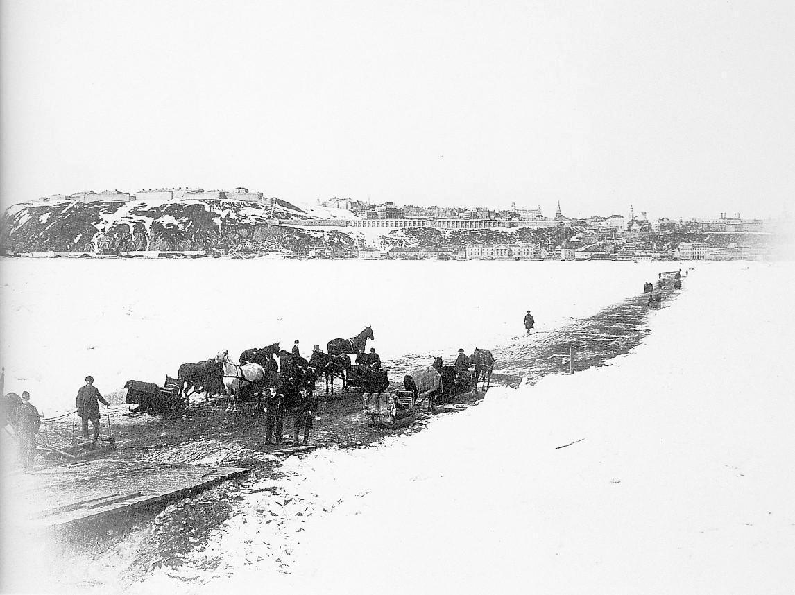 The ice bridge on the St. Lawrence river between Québec and Lévis, Quebec, Canada, in 1892